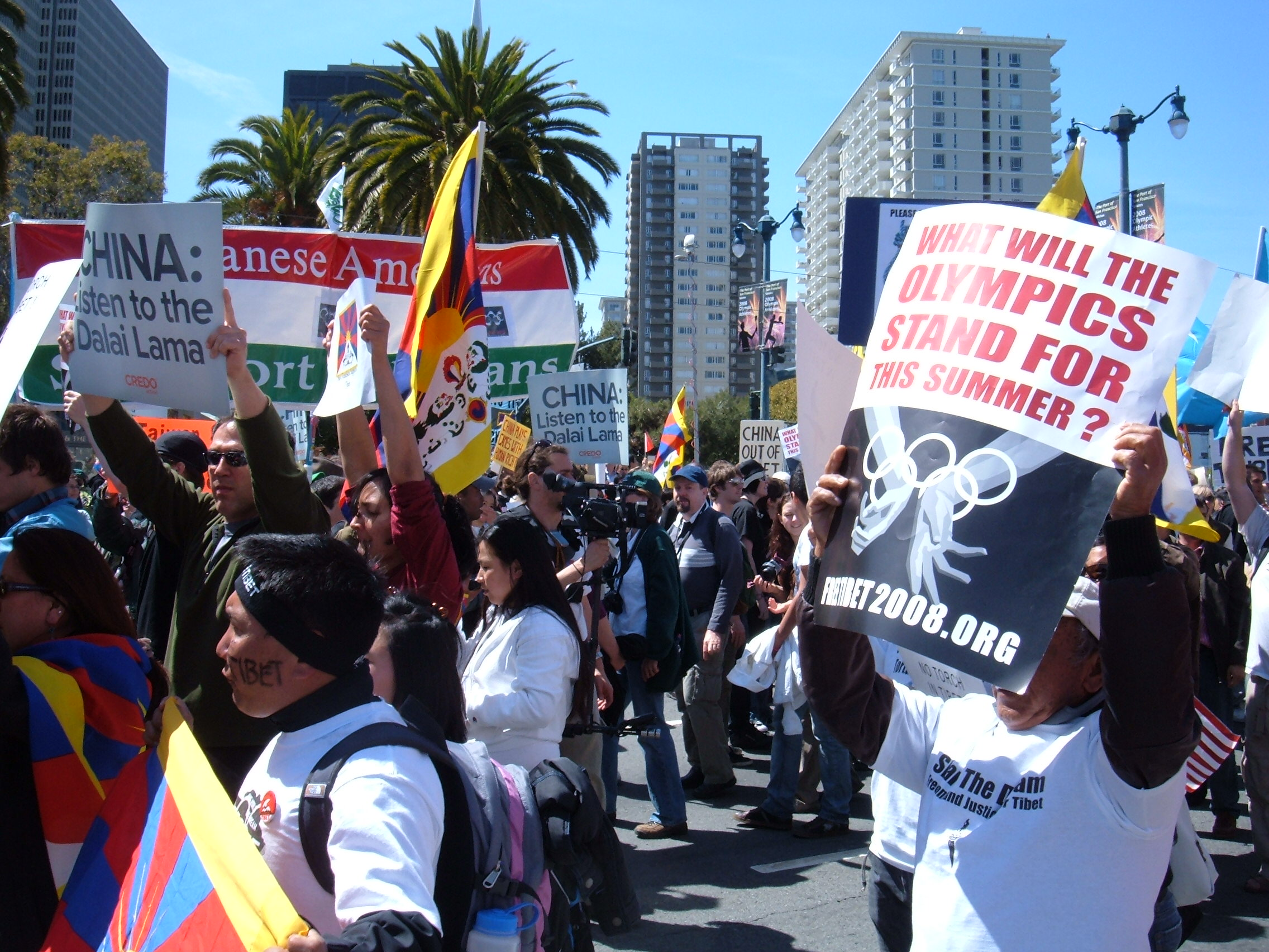 Part of a large group of pro-Tibetan protesters moving south along the northbound lanes of The Embarcadero. For an explanation and additional photos of my experience during the relay please see User:BrokenSphere/Gallery/San Francisco Bay Area/San Francisco/2008 Olympic Torch Relay.